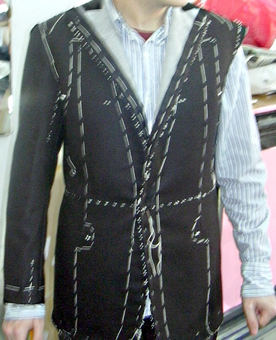 Tailoring: Tailoring: first fit of a jacket. The jacket is two-button, peaked lapels, double vented, black wool.